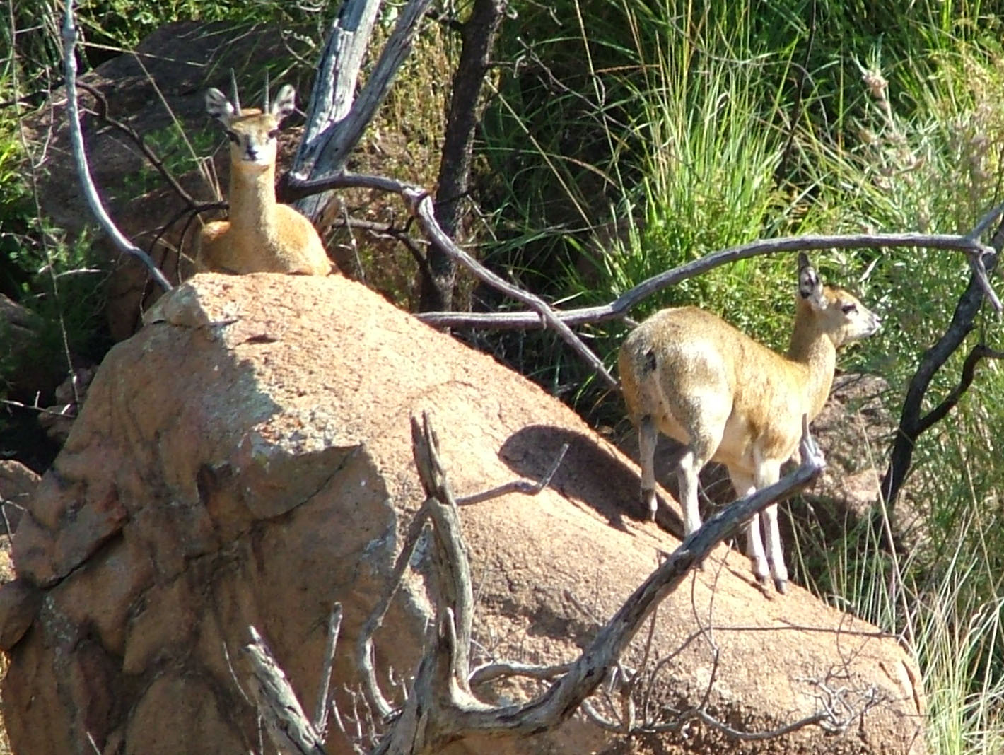 A pair of Klipspringer (Oreotragus oreotragus) - Mabula Game Reserve, South Africa